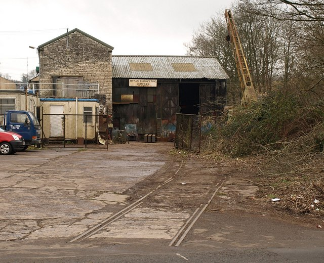 Ryman's Engineering Yard, Radstock A fragment of Radstock's industrial history. In the foreground are the rails mentioned in 1186748. Clearly there was a level crossing here across Frome Road. The tracks ran through a cutting which is now a SNCI (Site of Nature Conservation Importance).